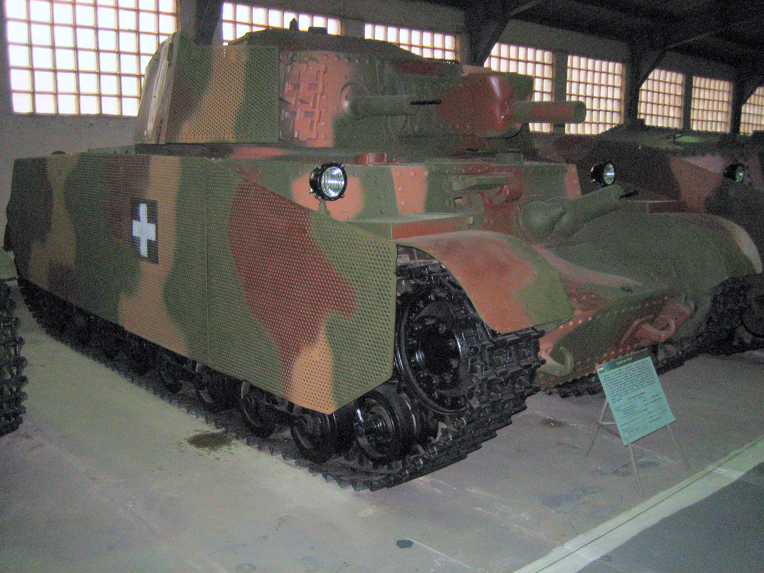 Turan tank at Kubinka Tank Museum